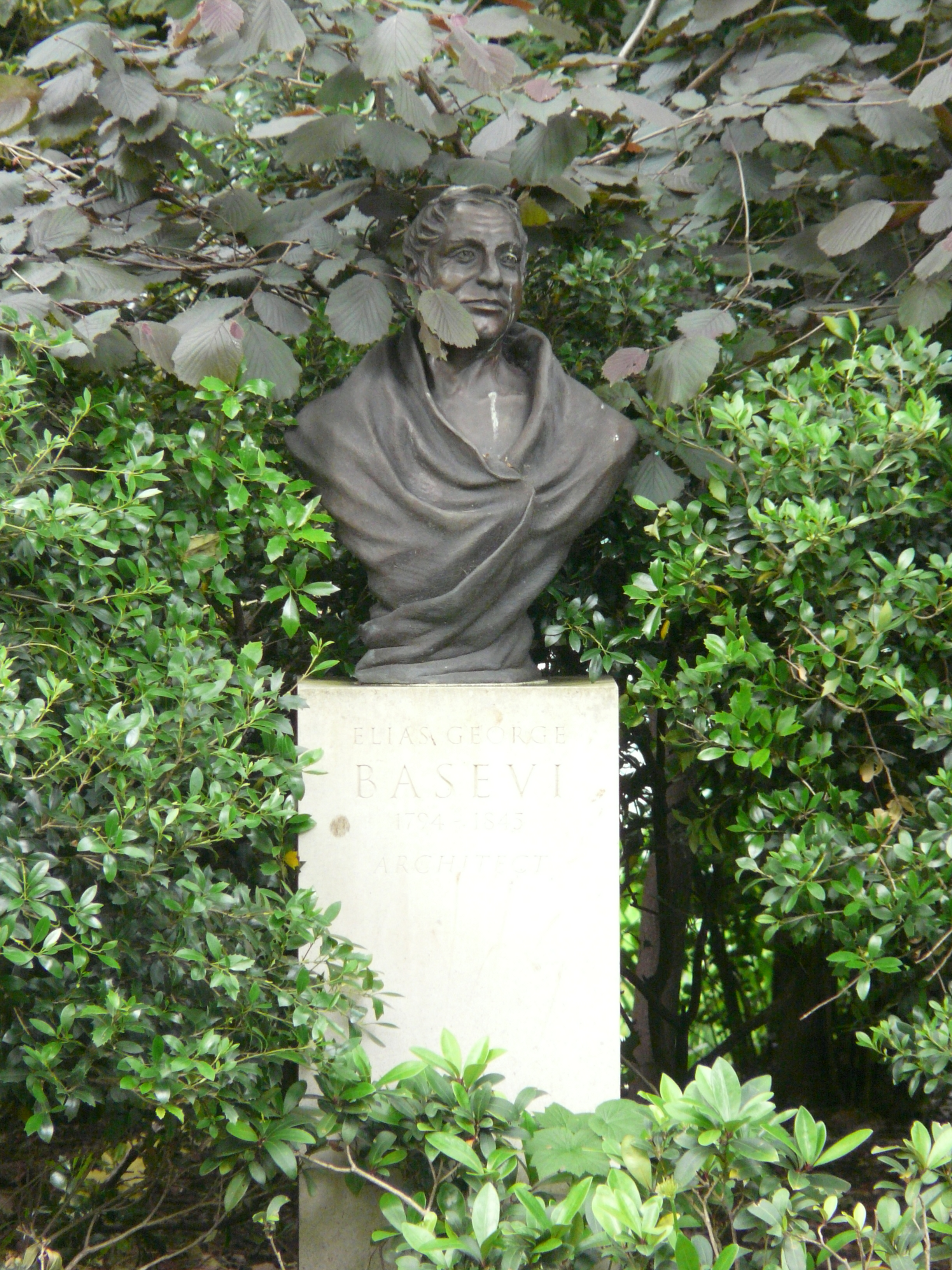 Bust of George Basevi by Jonathan Wylder, Belgrave Square Gardens, London SW1. The making of this file was supported by Wikimedia UK.